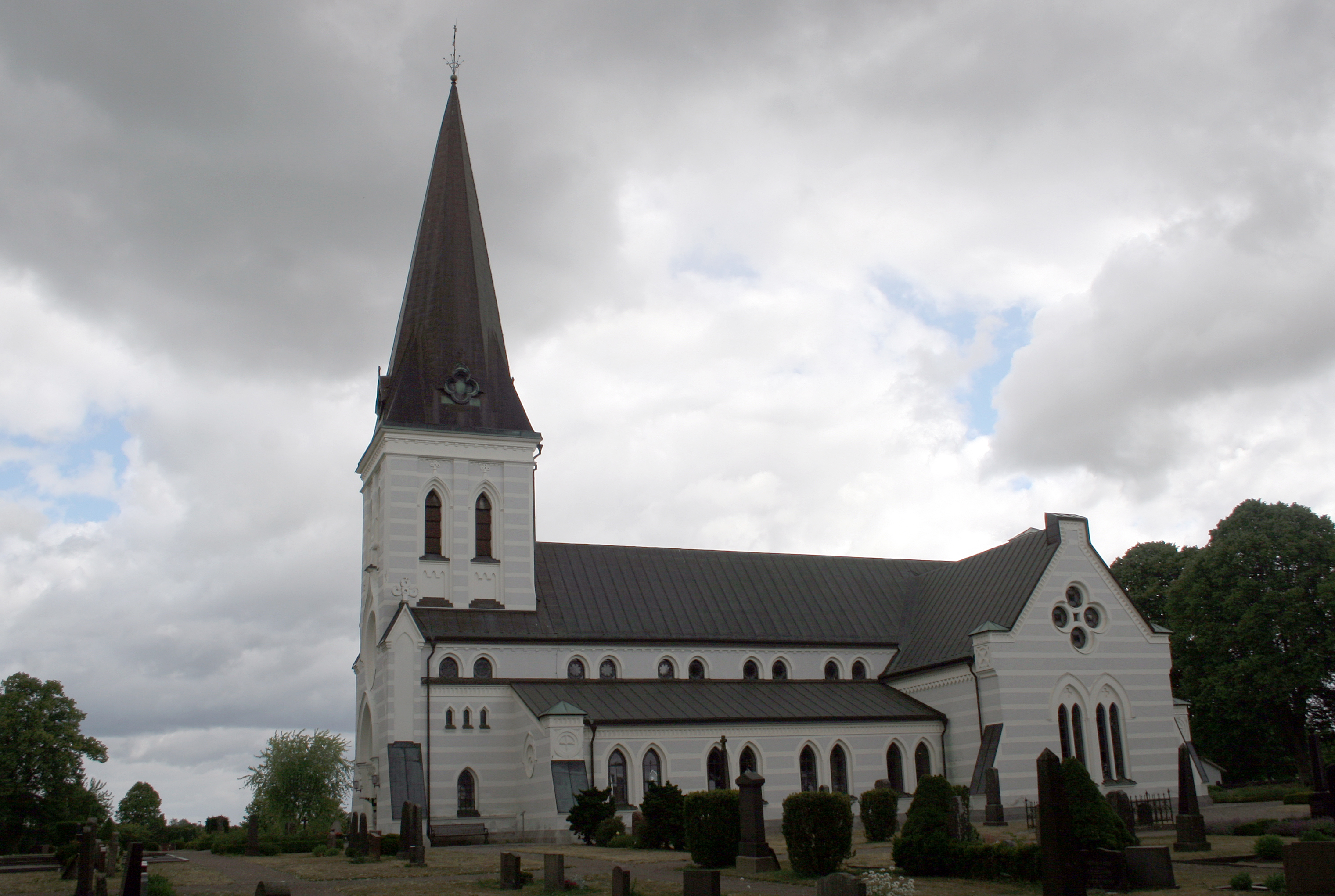 Nosaby Parish Church in Nosaby, Kristianstad, Sweden.